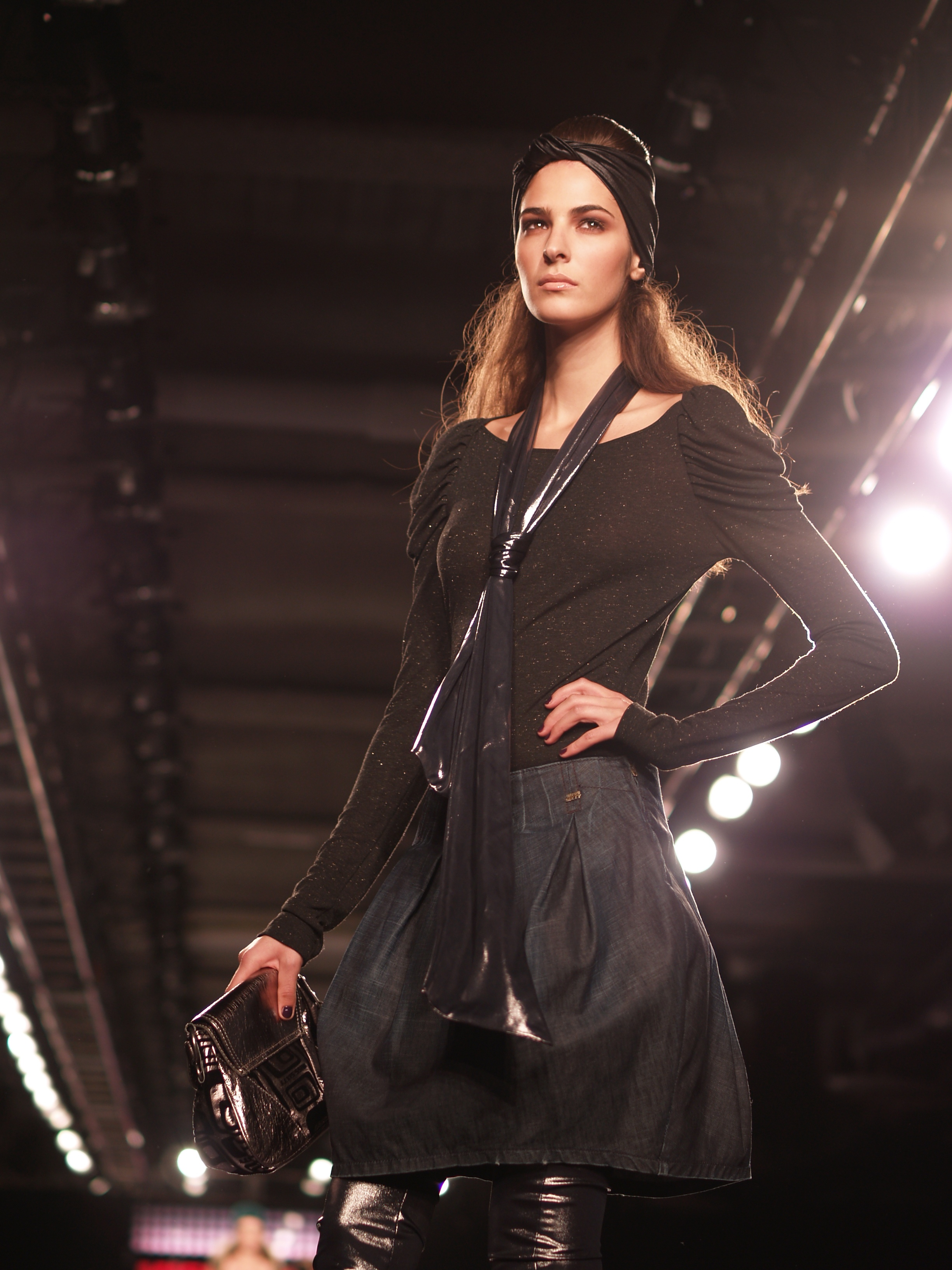 Emina Cunmulaj modeling for Miss Sixty, Fall 2007 New York Fashion Week.